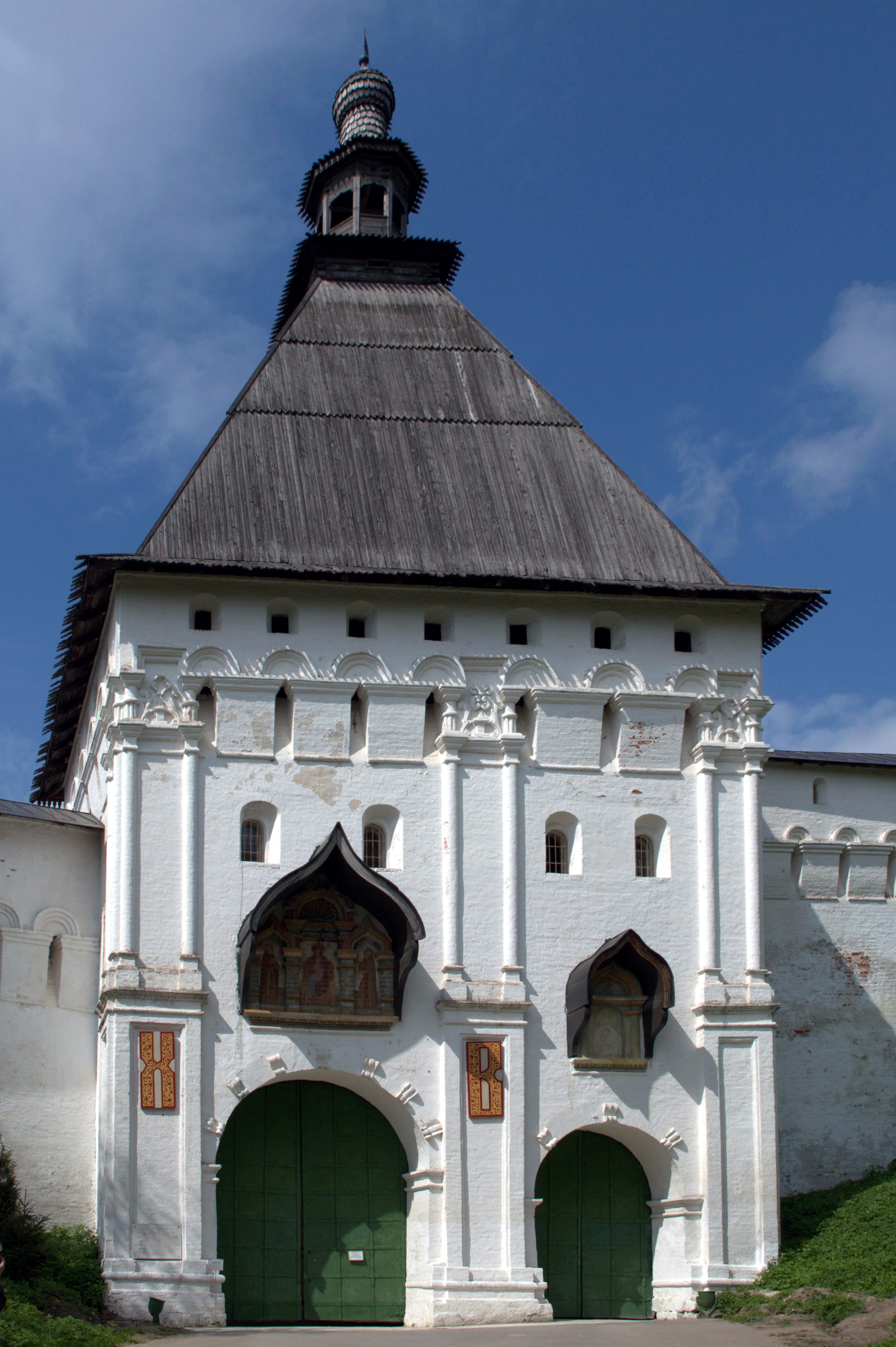 Red gates